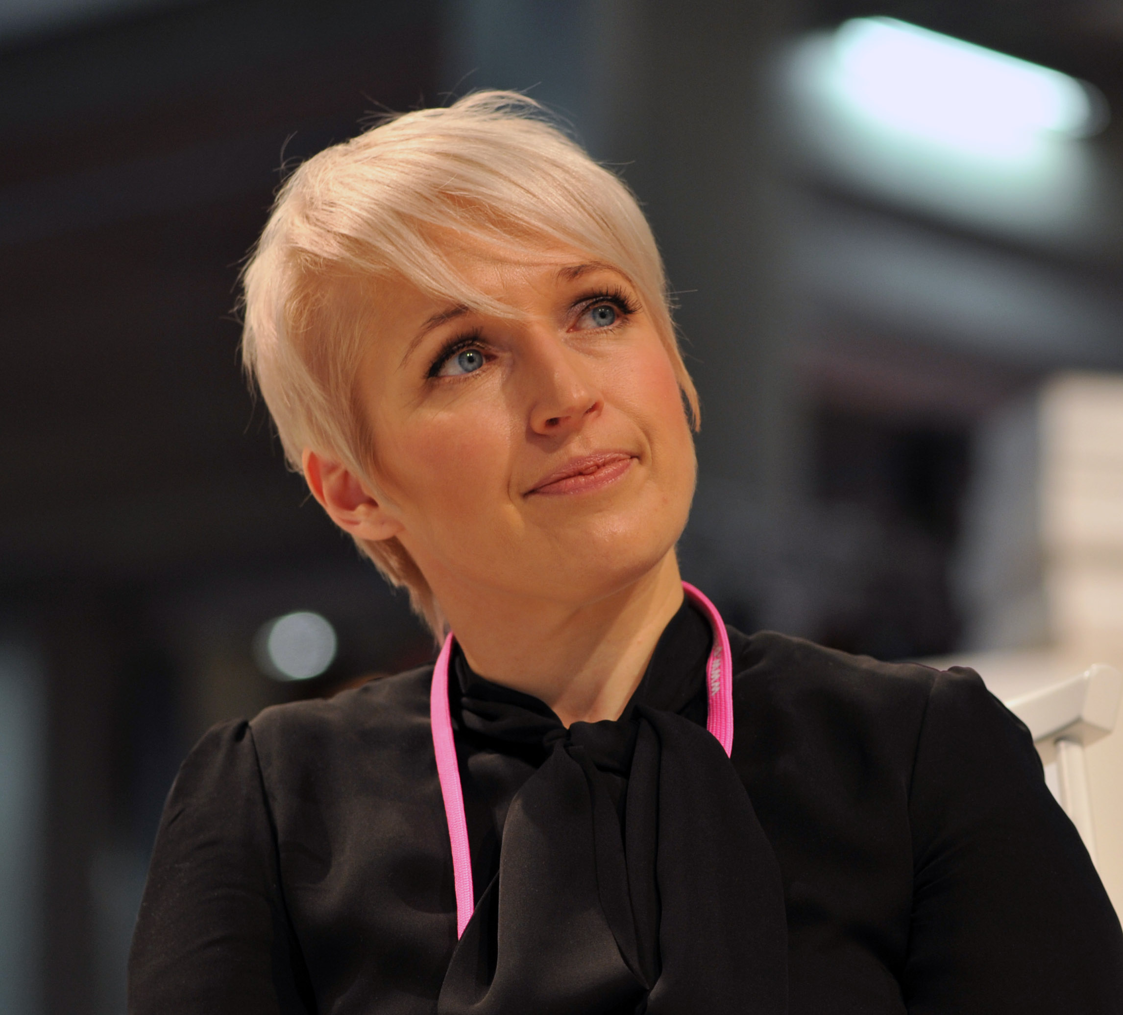 Anna Perho, Finnish journalist, Helsinki Book Fair 2011.